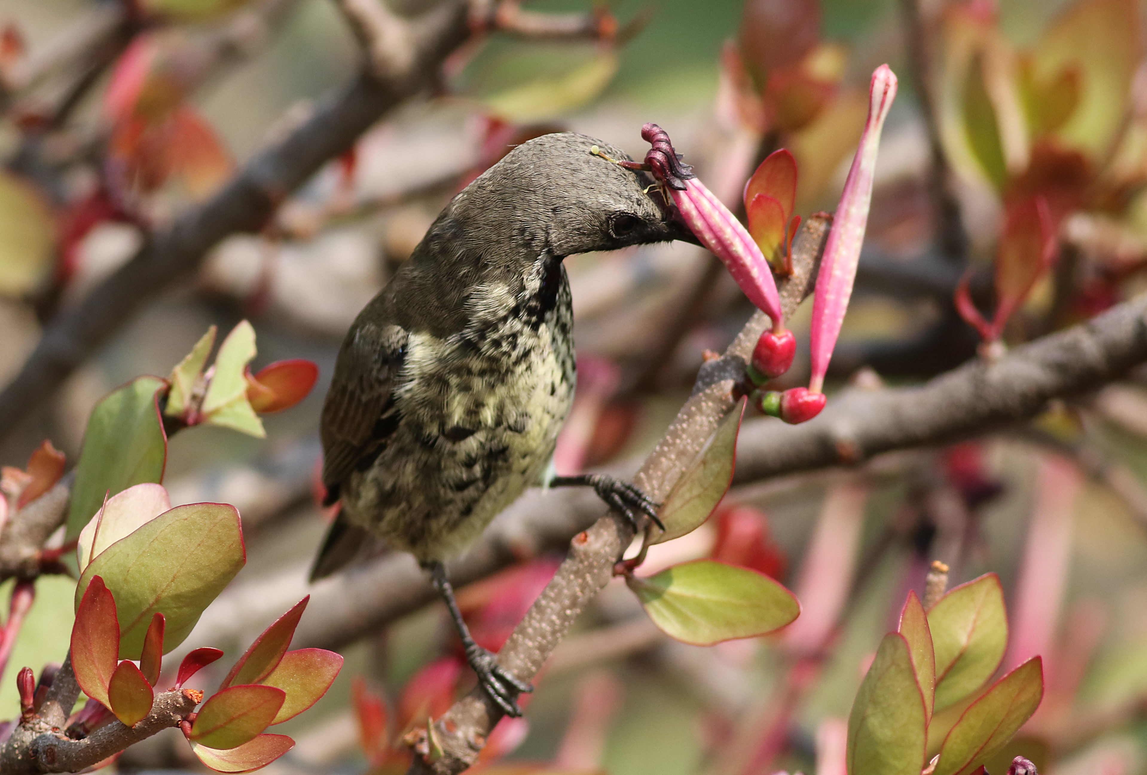 An immature male Amethyst sunbird of the nominate race, feeding on nectar of a mistletoe flower at the Kloofendal Nature Reserve, Johannesburg, South Africa. Pollen is deposited on the crown of the bird.